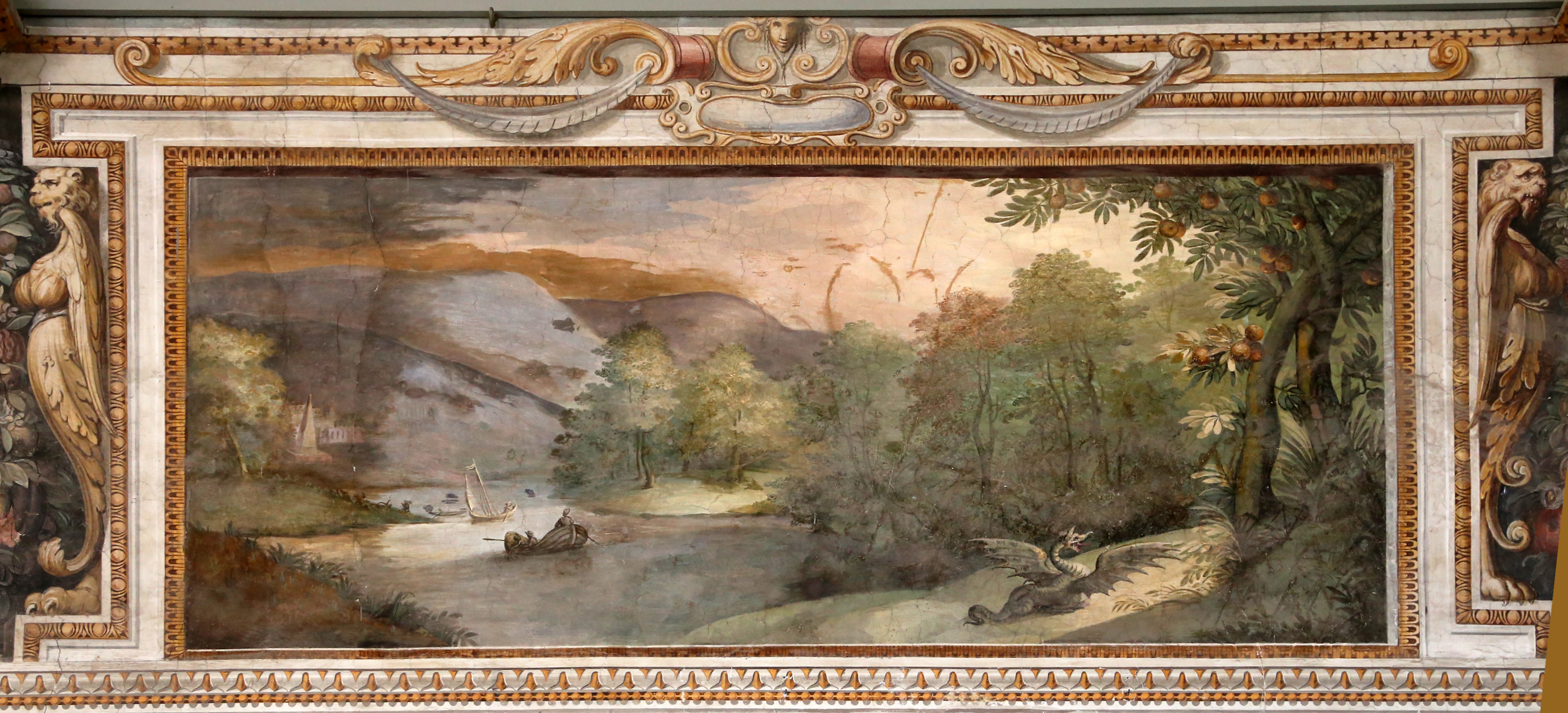 Sala Ducale